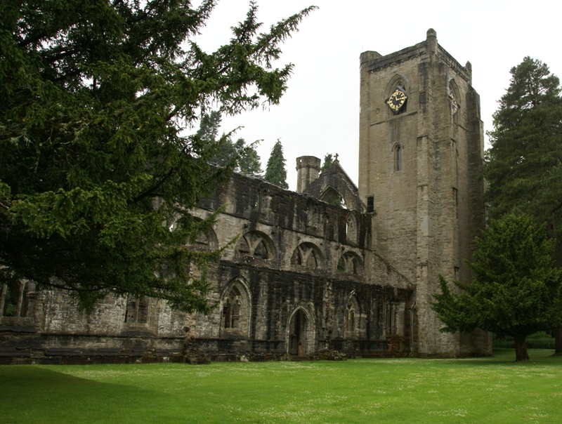 Dunkeld Cathedral, Dunkeld, Perth and Kinross, Scotland - nave exterior from the north east